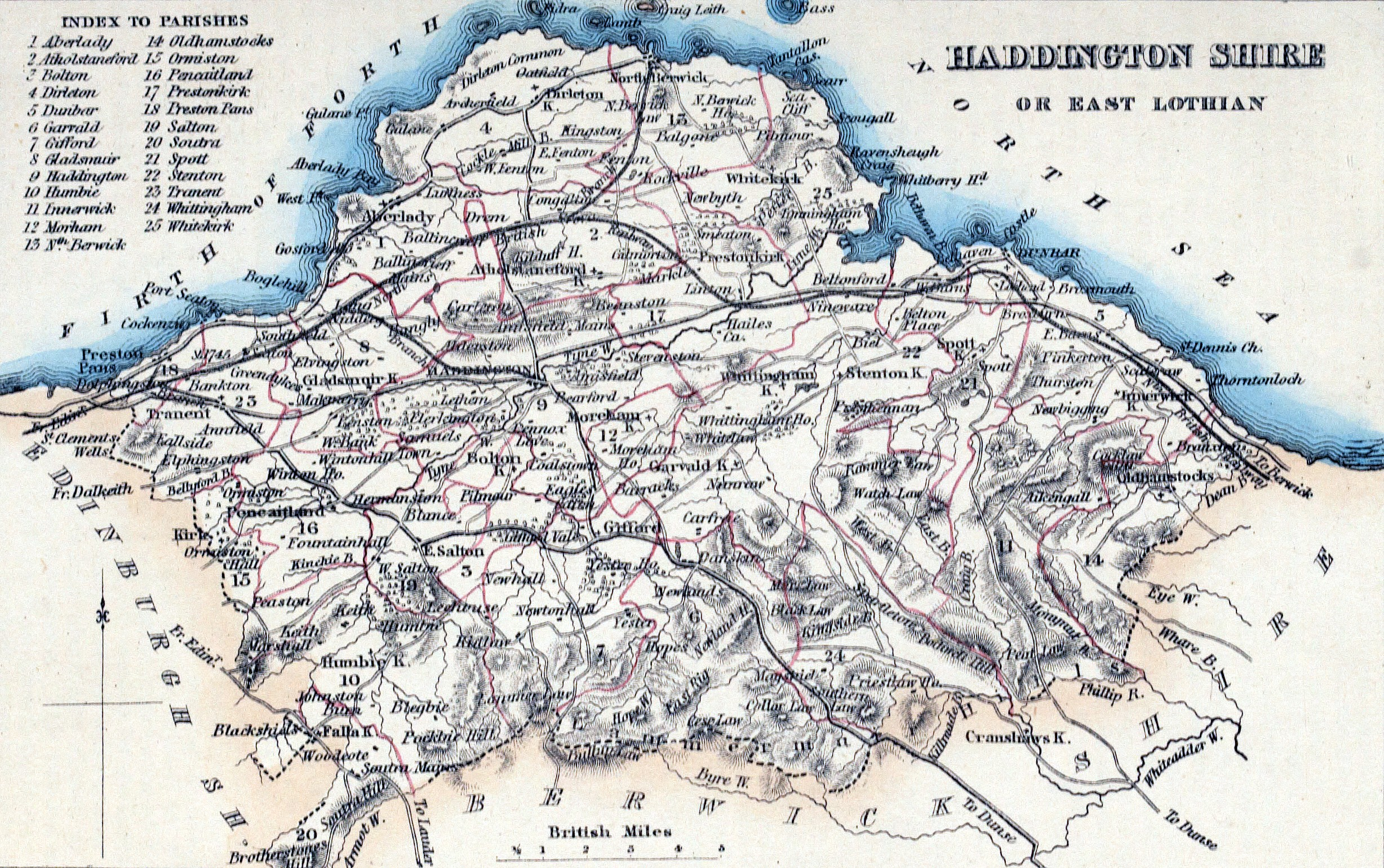 EAST LOTHIAN (Haddingtonshire). The Imperial gazetteer of Scotland. Vol.II. by Rev. John Marius Wilson.